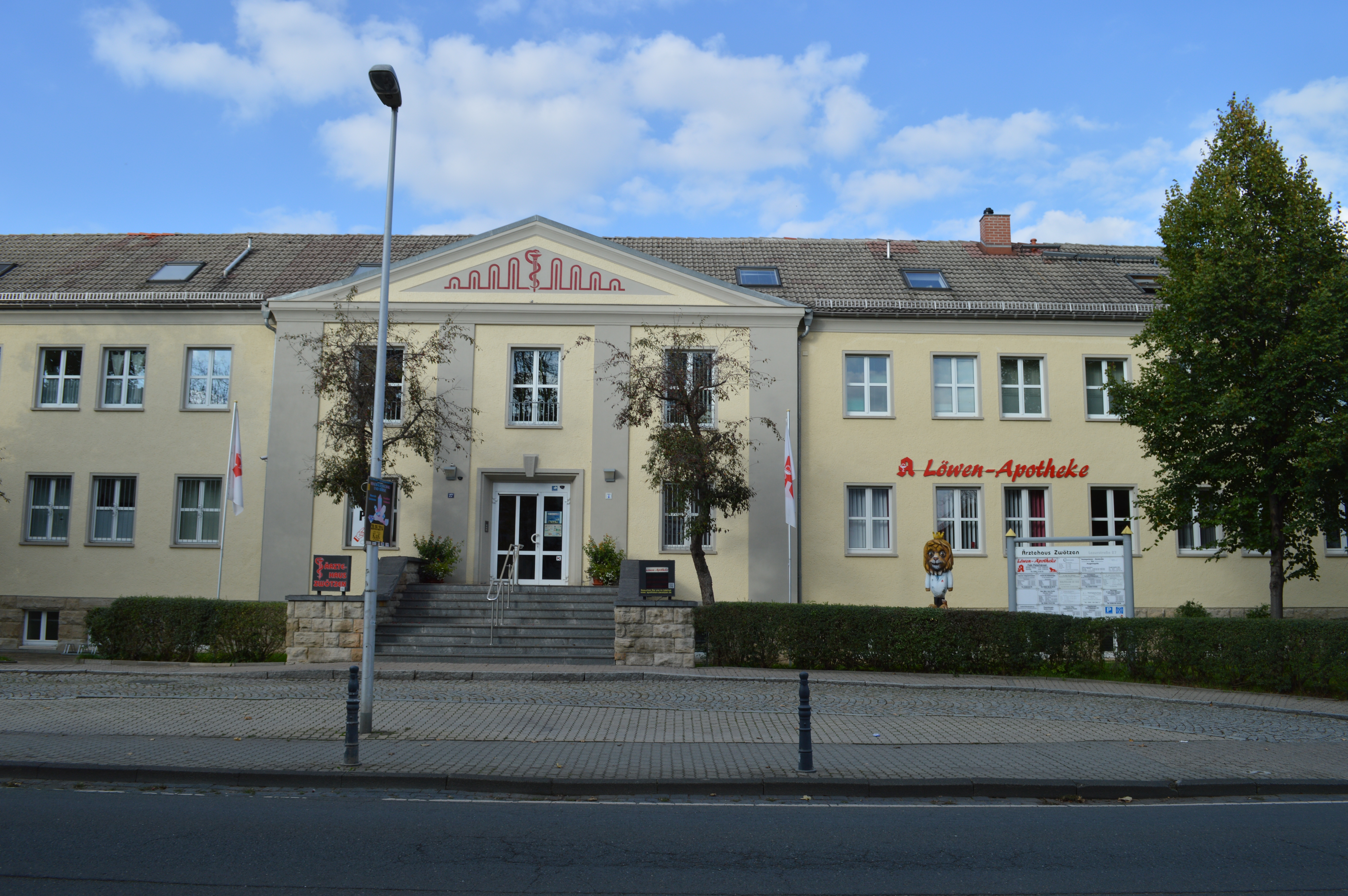 Zwötzen clinic (former Polyclinic Clara Zetkin) at Lasurstraße 27 in Gera, Germany, in September 2014